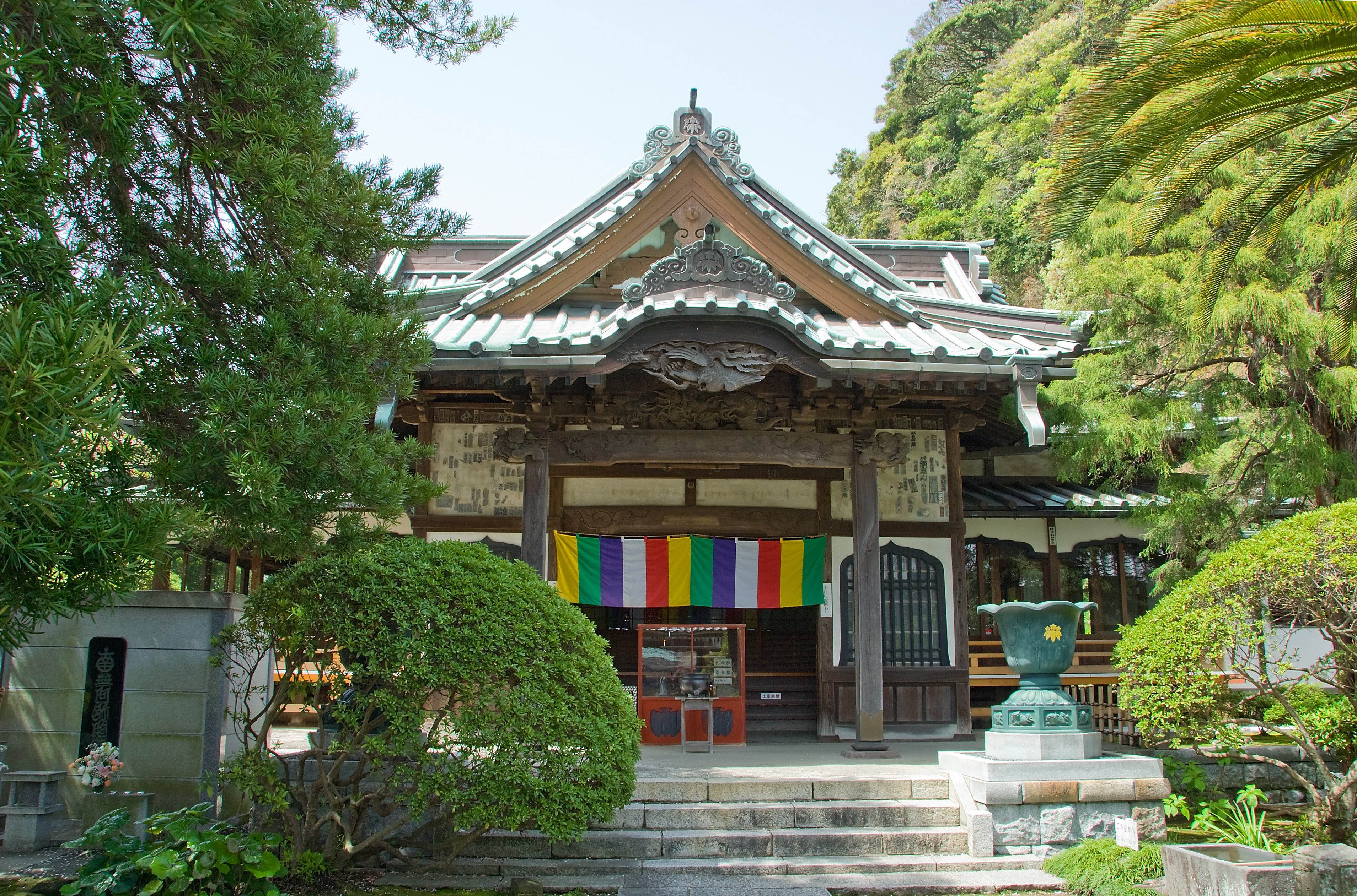 Main hall of An'yō-in temple in Kamakura, Kanagawa